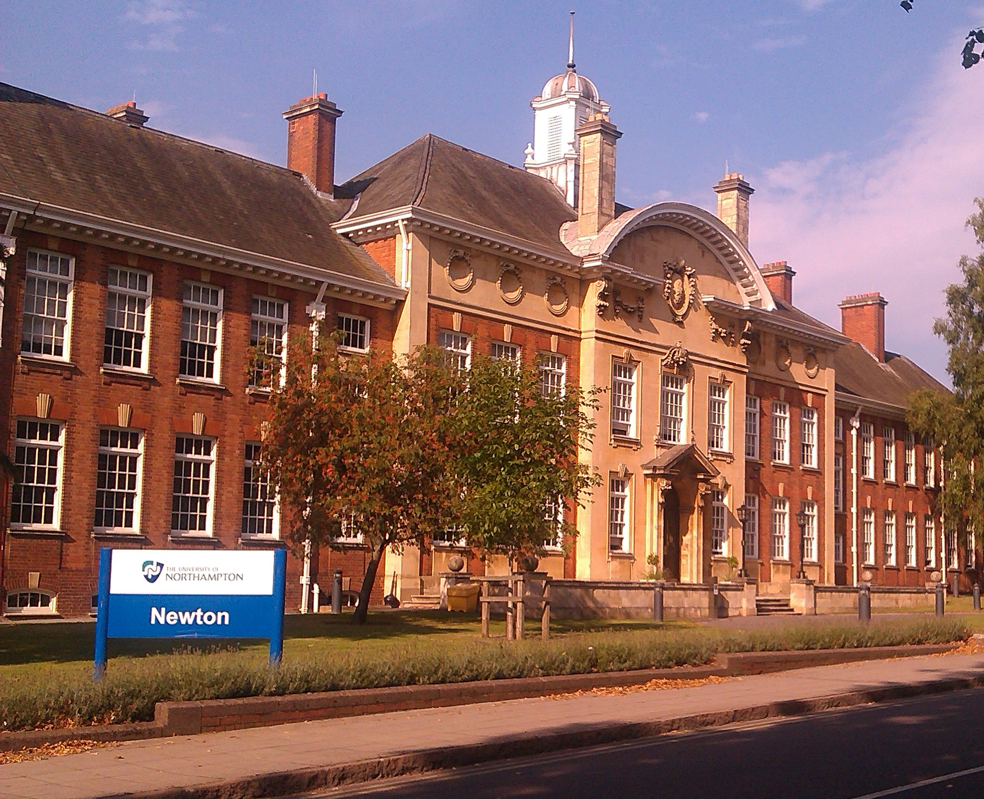 Newton Building, Avenue Campus, University of Northampton